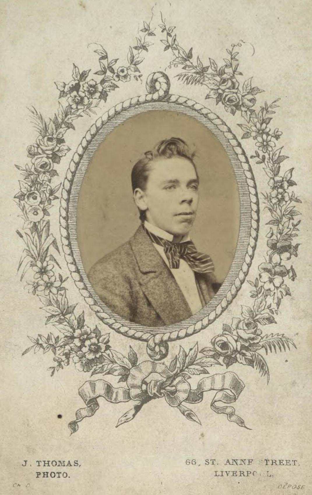 A portrait from the Welsh Portrait Collection at the National Library of Wales. Depicted person: Samuel Maurice Jones – Welsh artist